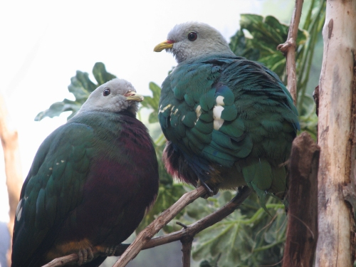 Wompoo Fruit Doves at the Louisville Zoo Own work by uploader Author: Trisha M Shears